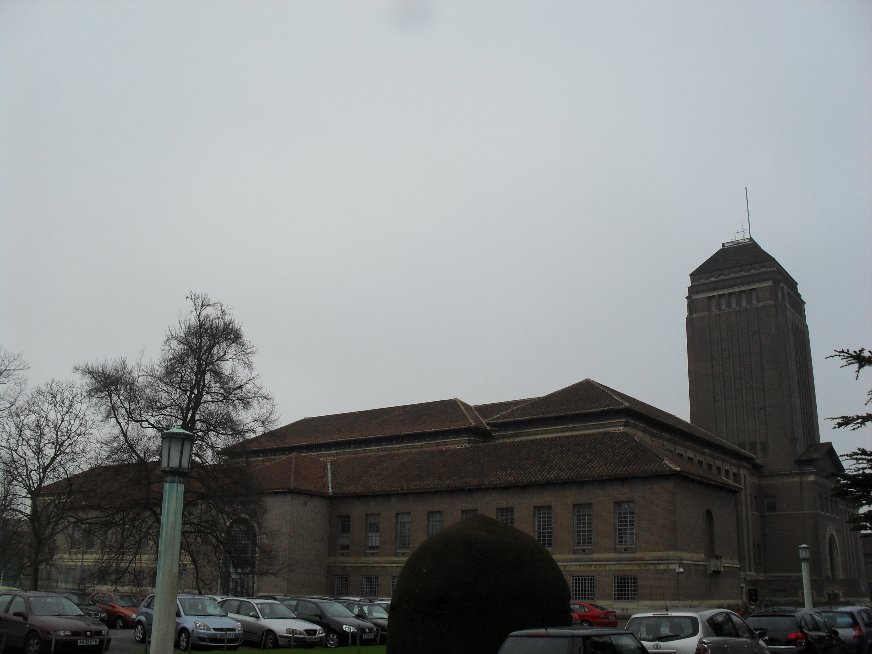 Cambridge University Library